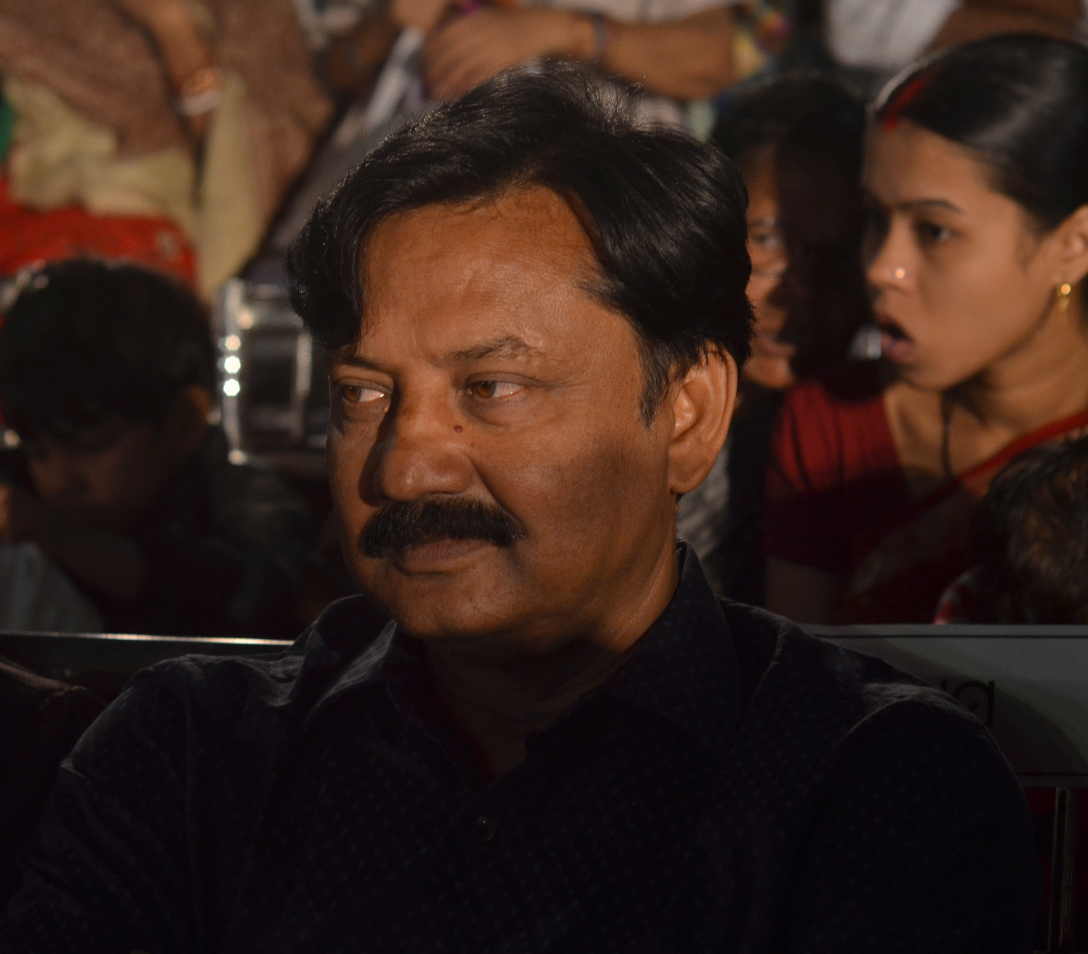 Ashok Das during 25th Odisha State Film Awards ceremony 2014, Bhubaneswar. Das was felicitated as a supporting actor in the Odia film "Bachelor".